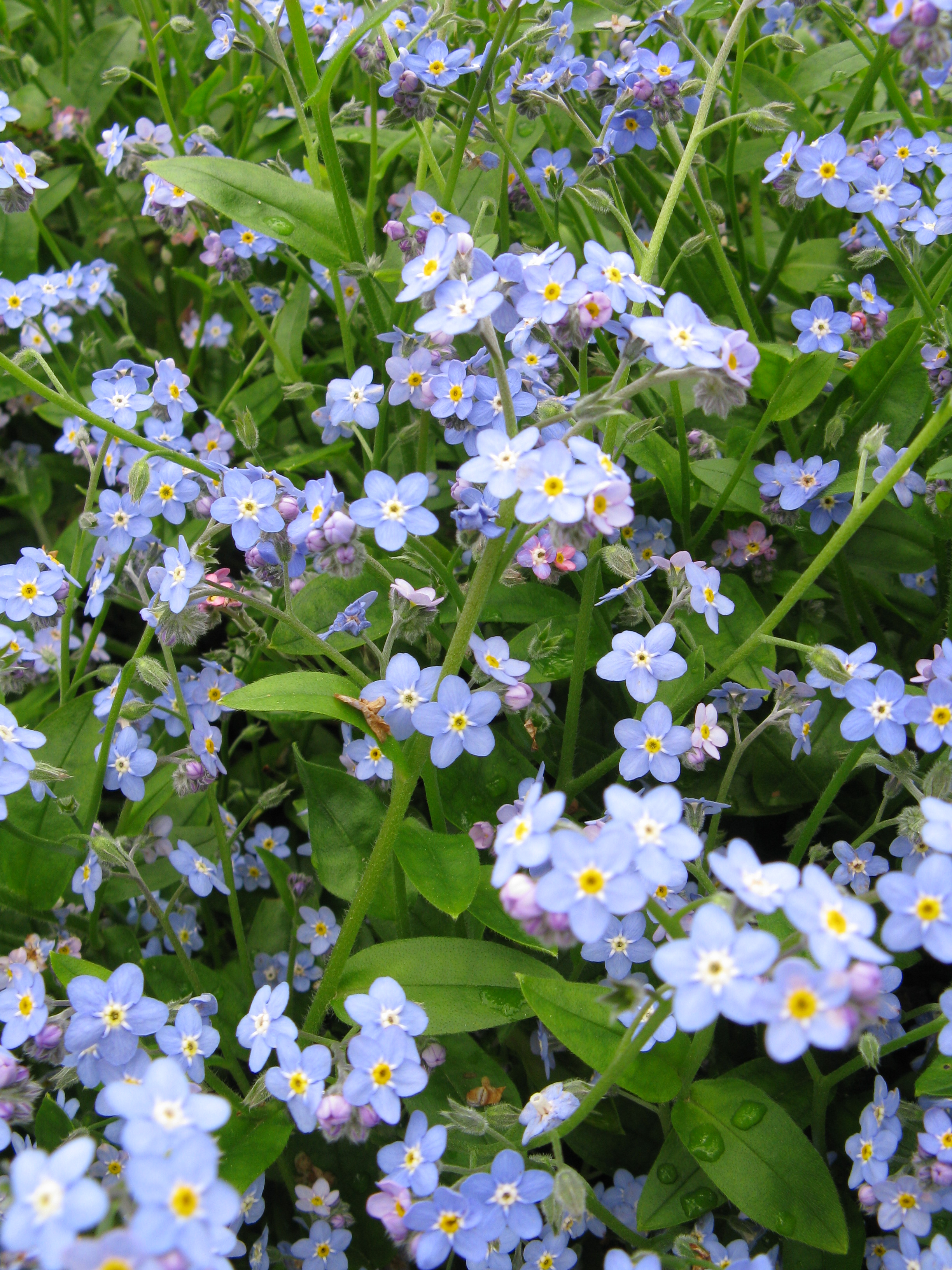 Myosotis scorpioides